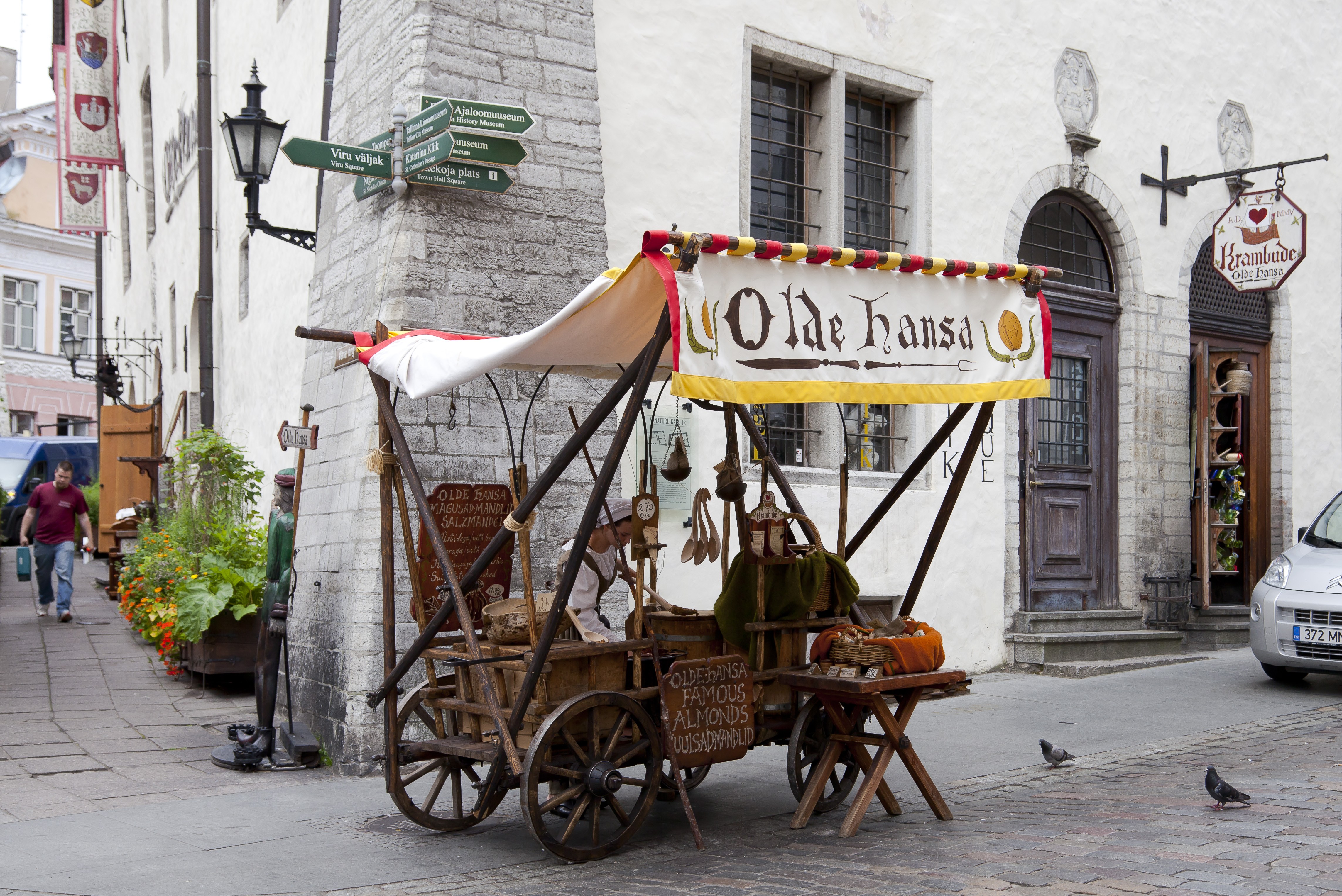 Sweet almonds shop in Vanaturu Kael, Tallinn, Estonia